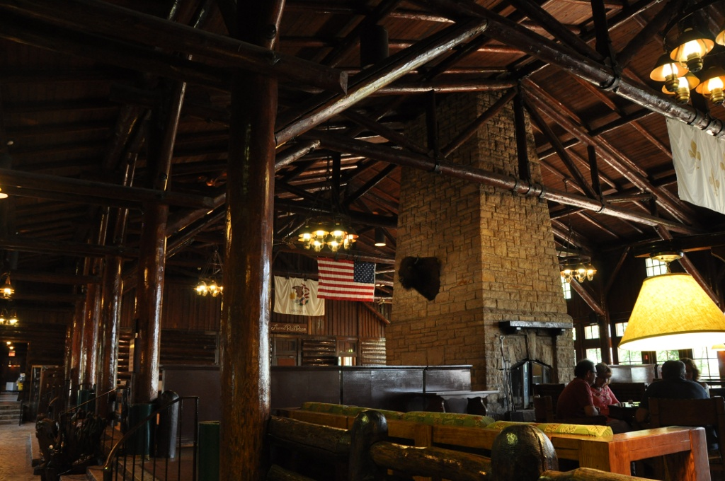 Interior view of the Starved Rock Lodge at Starved Rock State Park, Illinois.